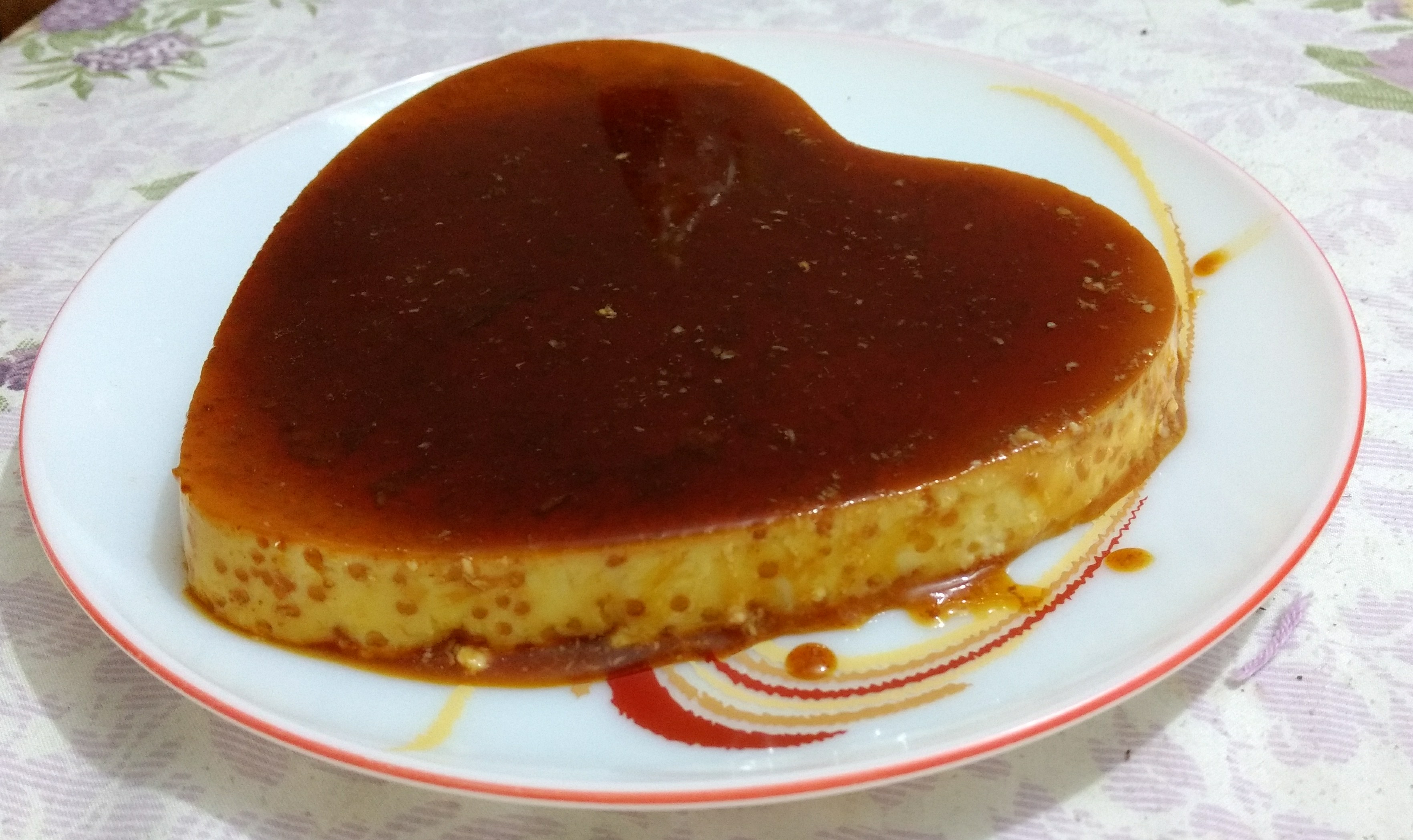 Home made Creme Caramel